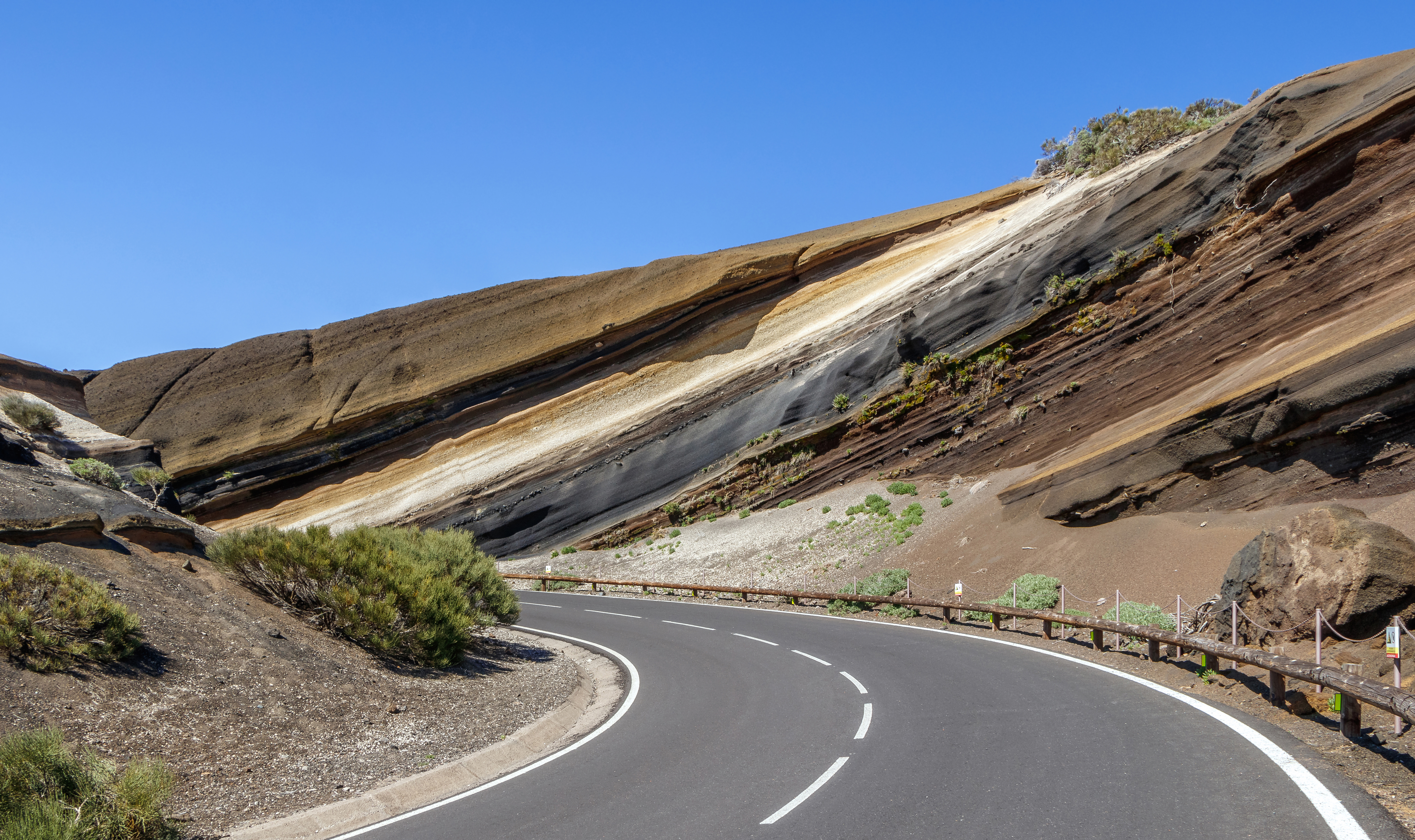 Pyroclastic layers "La Tarta del Teide", Tenerife, Canary Islands, Spain.